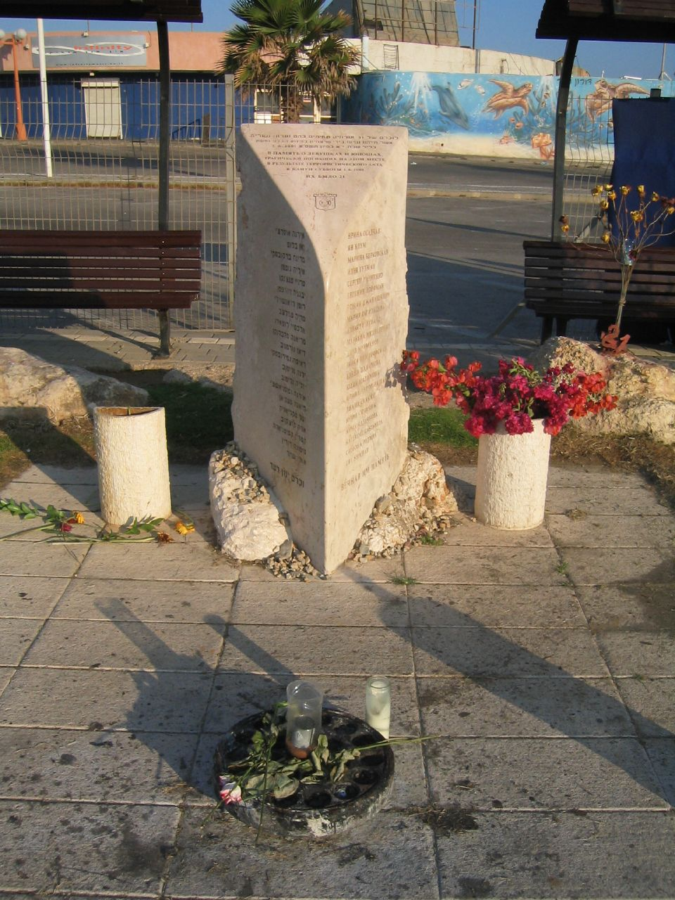 Memorial for the victims of the Dolphinarium Massacre.